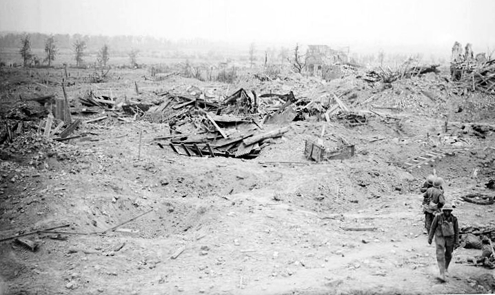 The Battle of Messines, June 1917 Wytschaete, captured by the 16th (Irish) and 36th (Ulster) Division on 7 June. 10 June 1917.